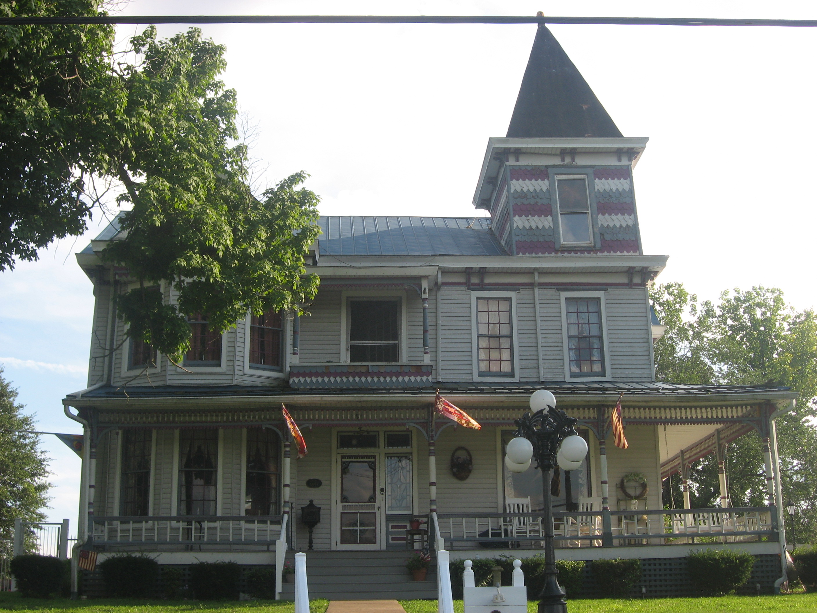 Front of the Joseph S. Miller House, located at 748 Beech Street in Kenova, West Virginia, United States. Built in 1891, it is listed on the National Register of Historic Places.